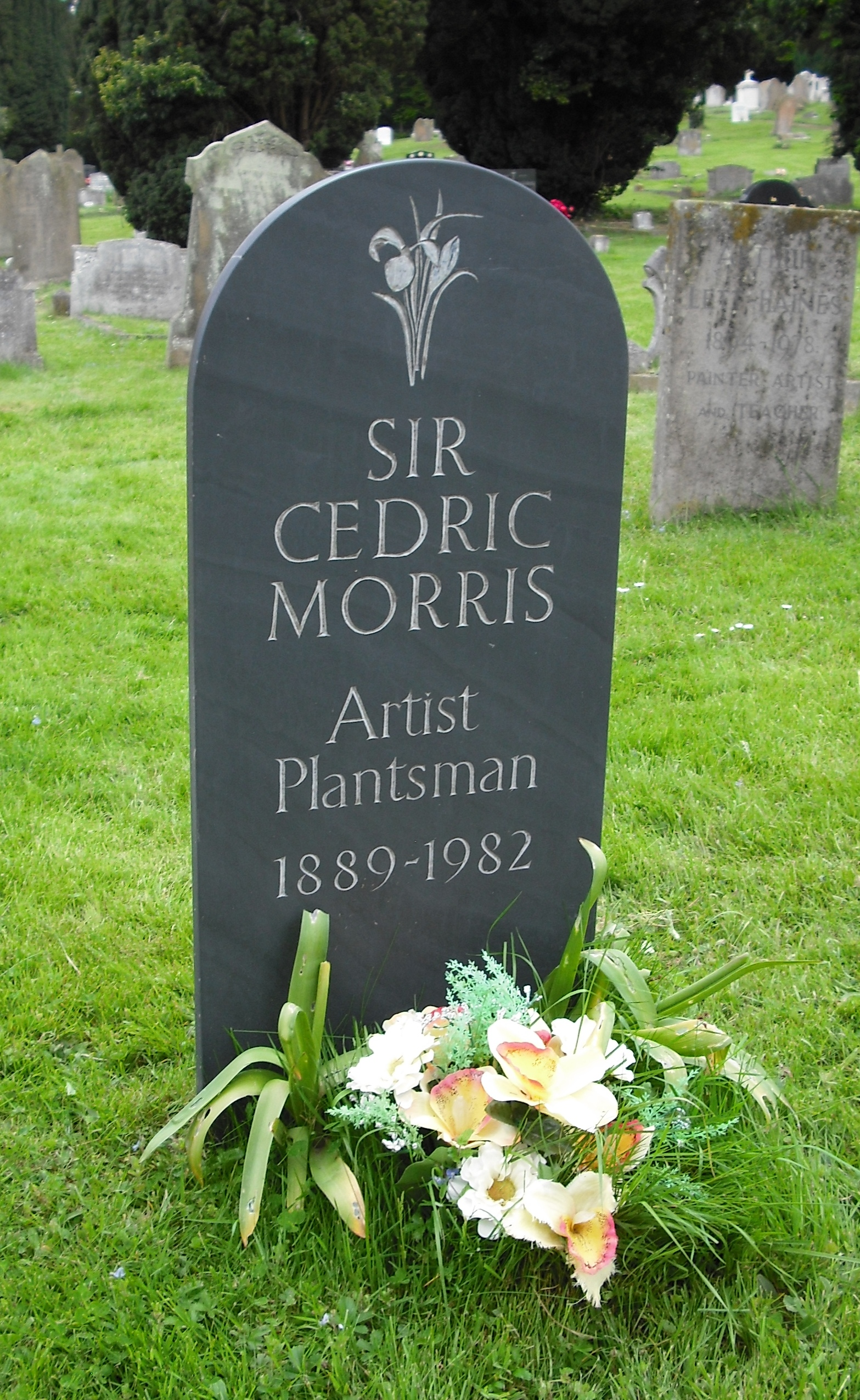 Gravestone of Sir Cedric Morris, Hadleigh Cemetery, Hadleigh, Suffolk. The gravestone of his partner Arthur Lett-Haines is visible back right